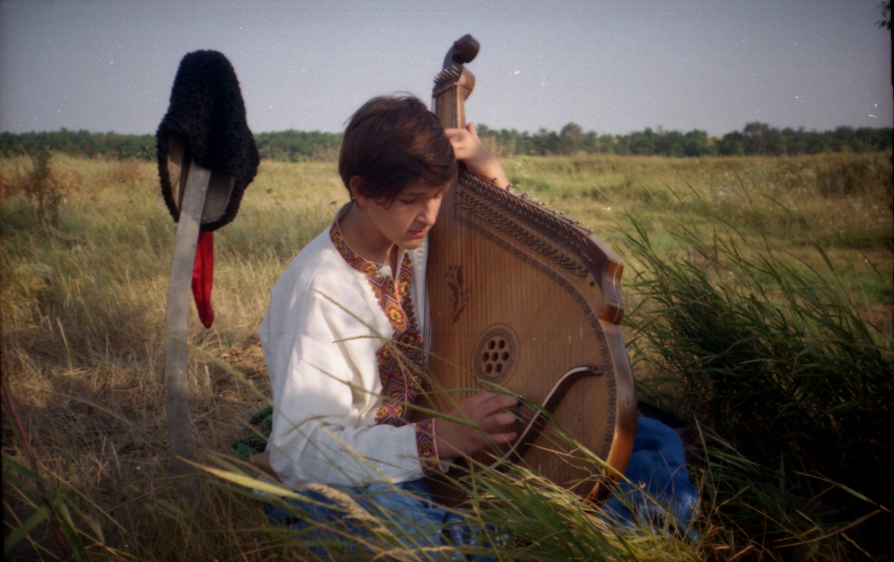 Bandurist and modern Cossack Danylo Nosko